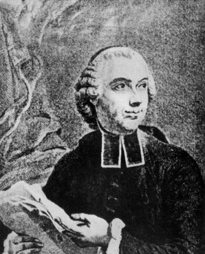 (PD by age)